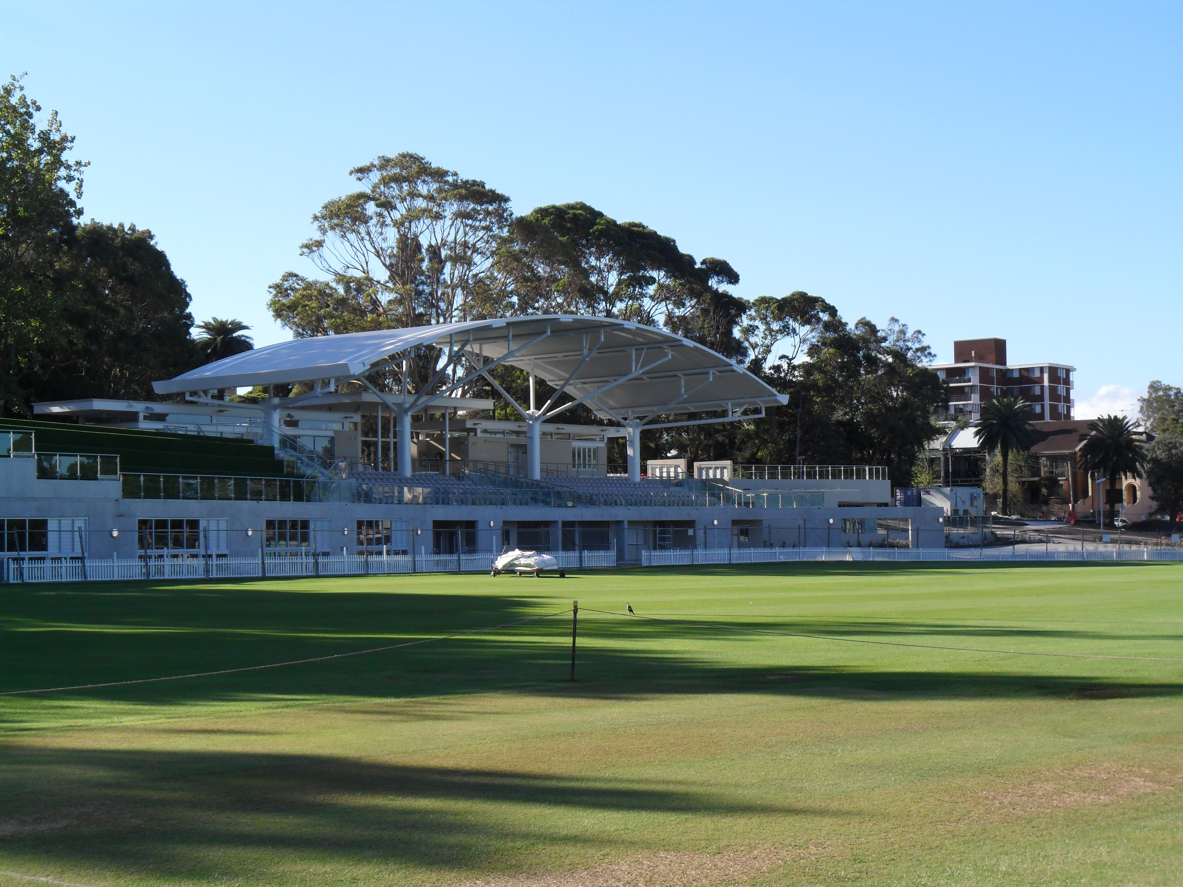 Waverley Oval, grandstand